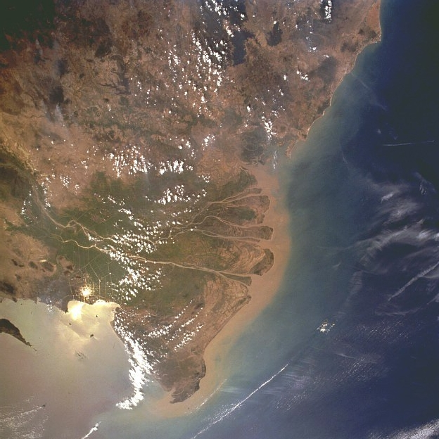 Mekong River Delta, Vietnam, looking towards the southwest. Photo taken February 1996. [1]